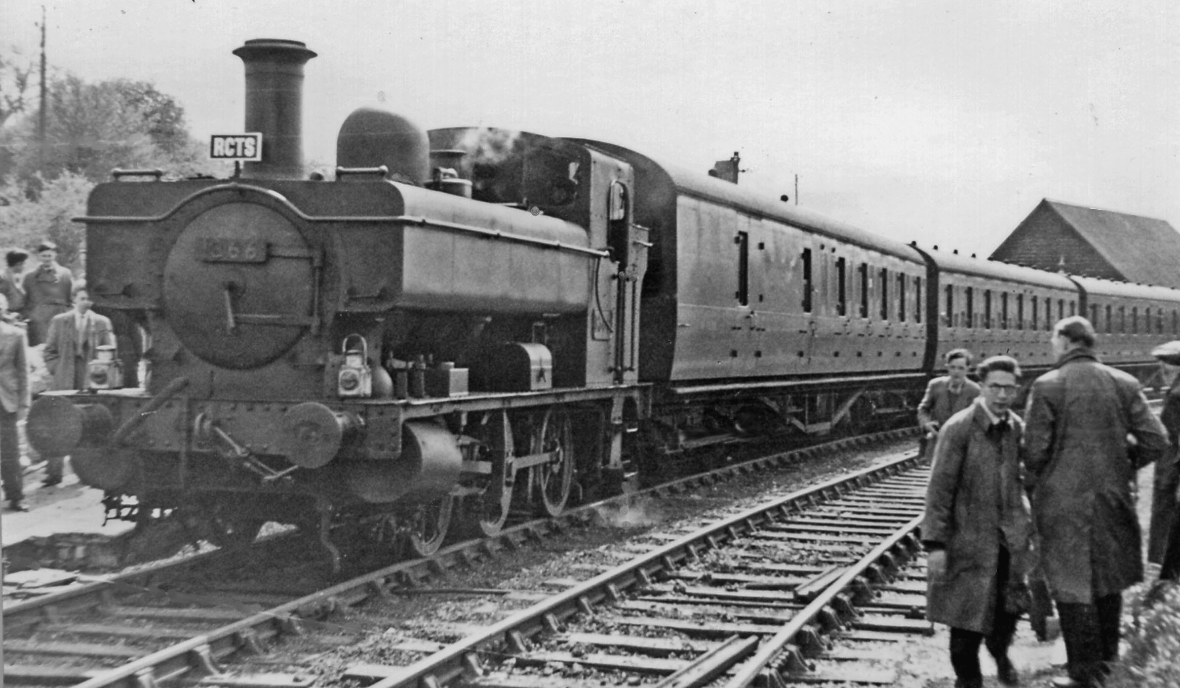 Rail Tour at Highworth with a GW Dock Tank. View southward, towards Swindon, on the occasion in April 1954 when the Railway Correspondence & Travel Society ran a Tour from London (Victoria) to Swindon Works, with an ancillary trip up the Highworth Branch, which had been closed to passengers on 2/3/53 - to goods on 6/8/62. The 0-6-0 Dock Tank, No. 1366 (built 1934, withdrawn 1/61), was normally employed at Swindon Wagon Works. (Note the typical Railway Enthuiasts).